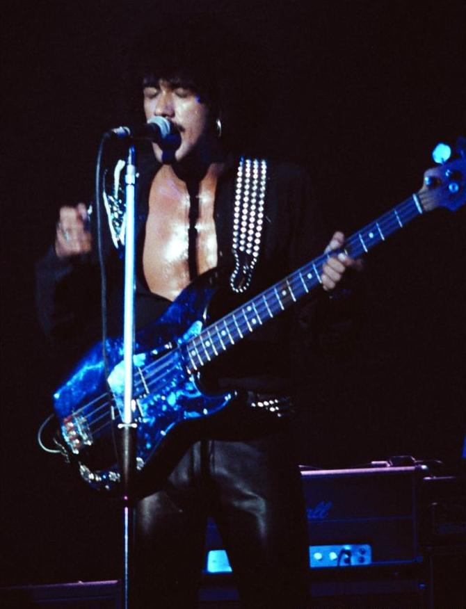 Thin Lizzy in Memphis Tn. 1978